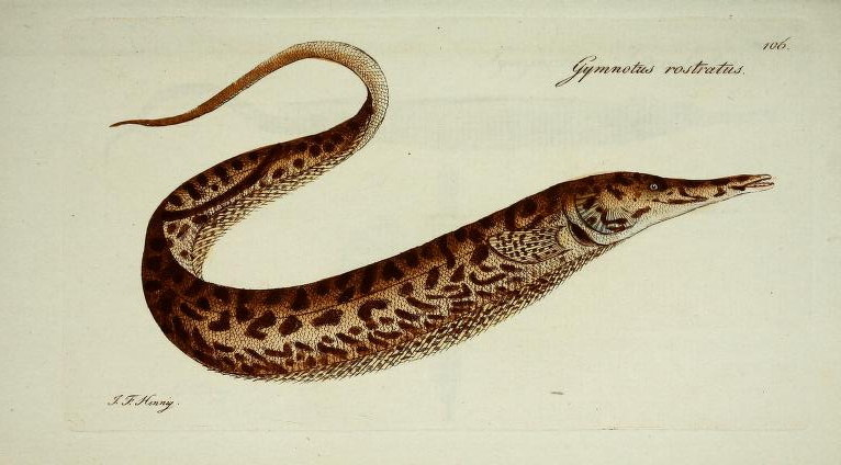 Rhamphichthys rostratus